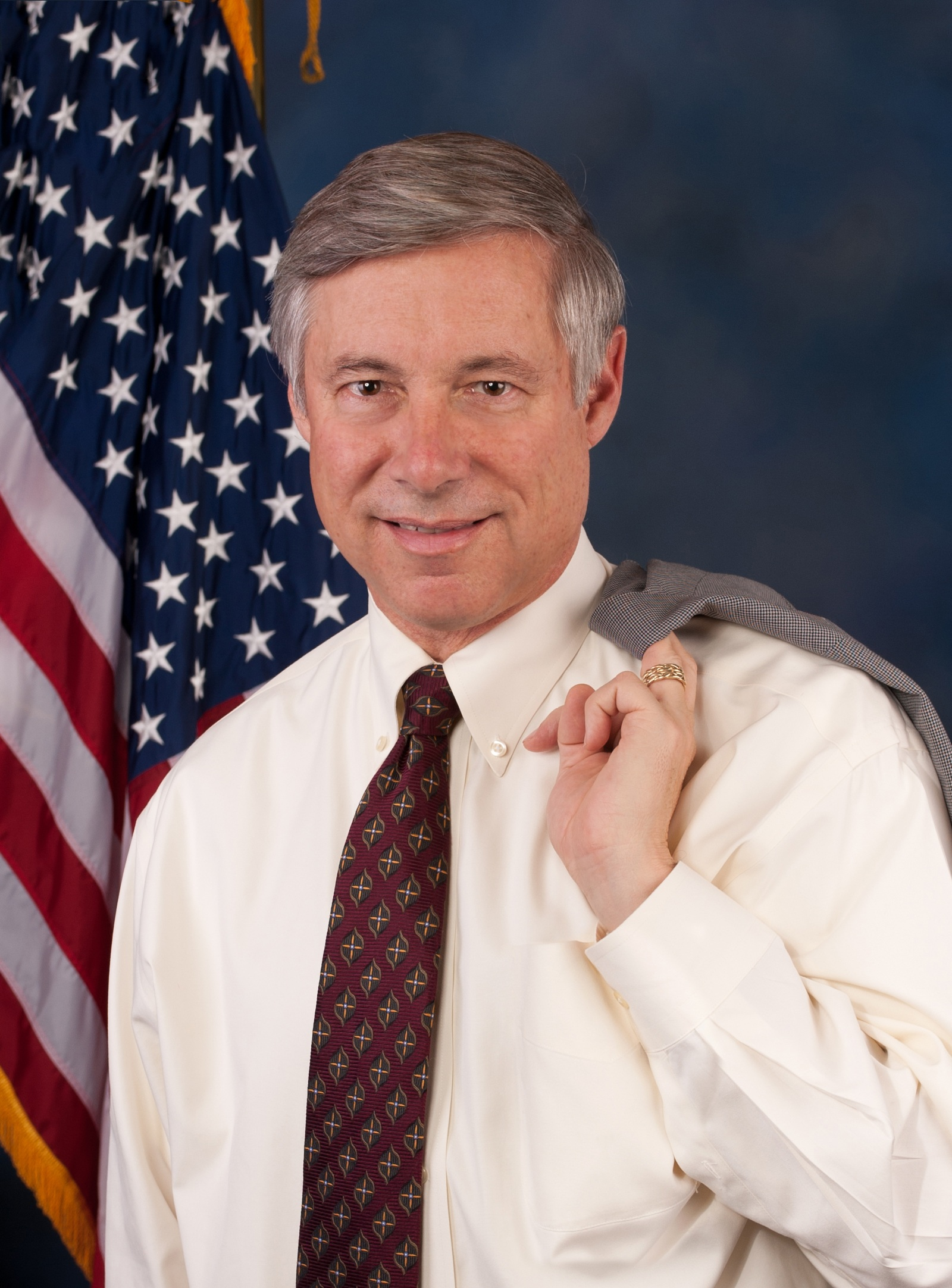 Fred Upton's official 113th US Congress photo